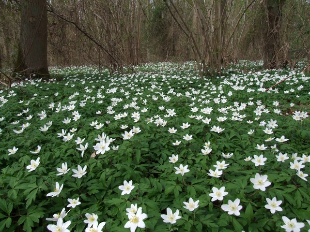 Southrey Woods, near Bardney. These Wood Anemones are well worth a look.